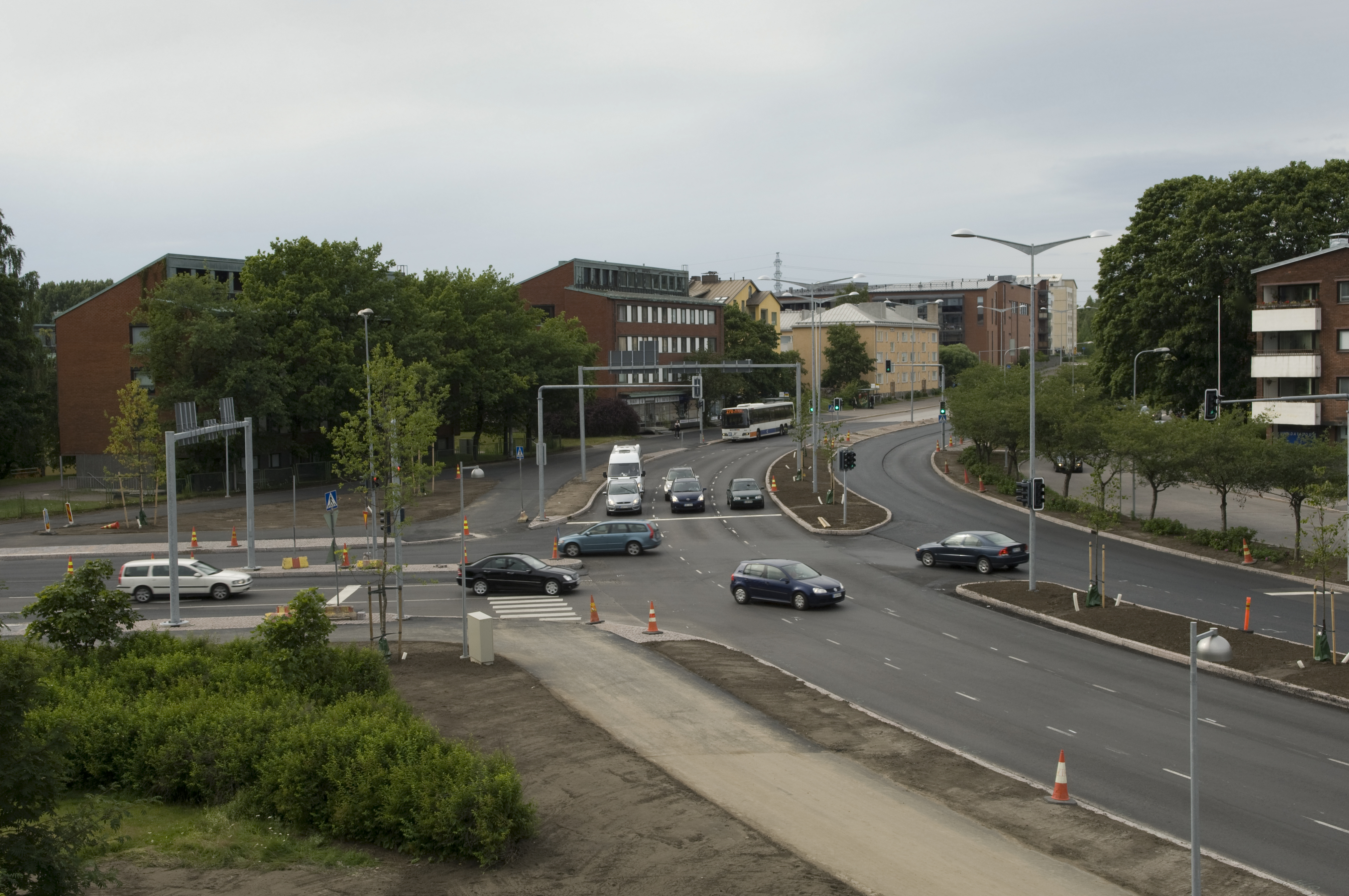 The intersection of Vihdintie road and Lapinmäentie road in Haaga, Helsinki, Finland.